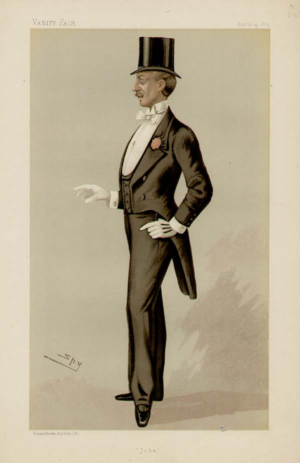 Caricature of Mr John Delacour (1841-??), Member of the Marlborough Club, horseracing enthusiast.